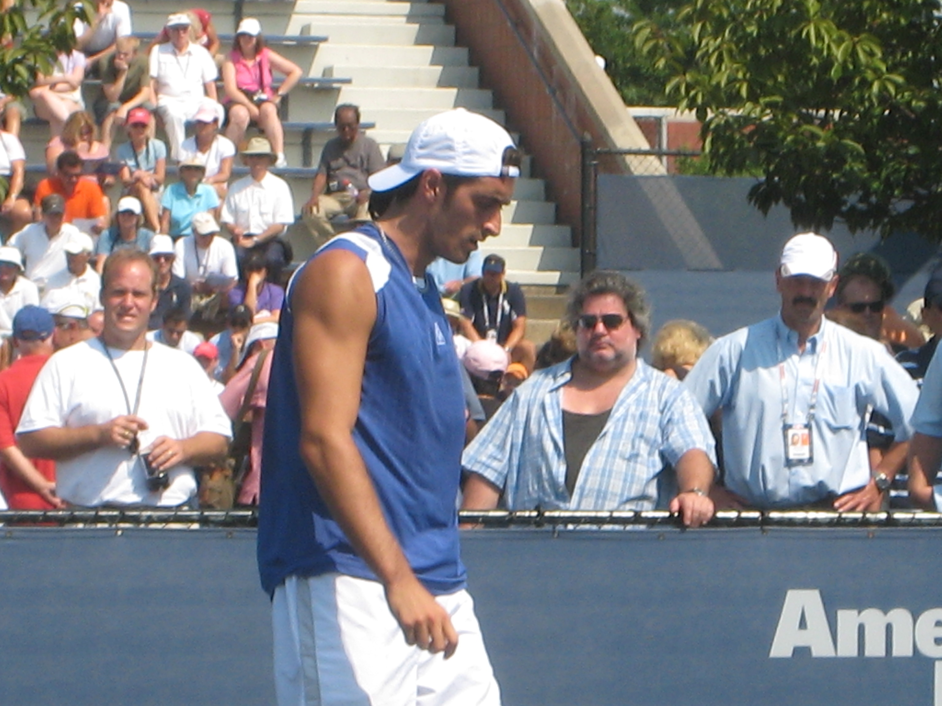 Potito Starace in his match against Ernests Gulbis at the 2007 U.S. Open. He lost.[1]. This image, however was taken by the uploader and released under the following licenses.